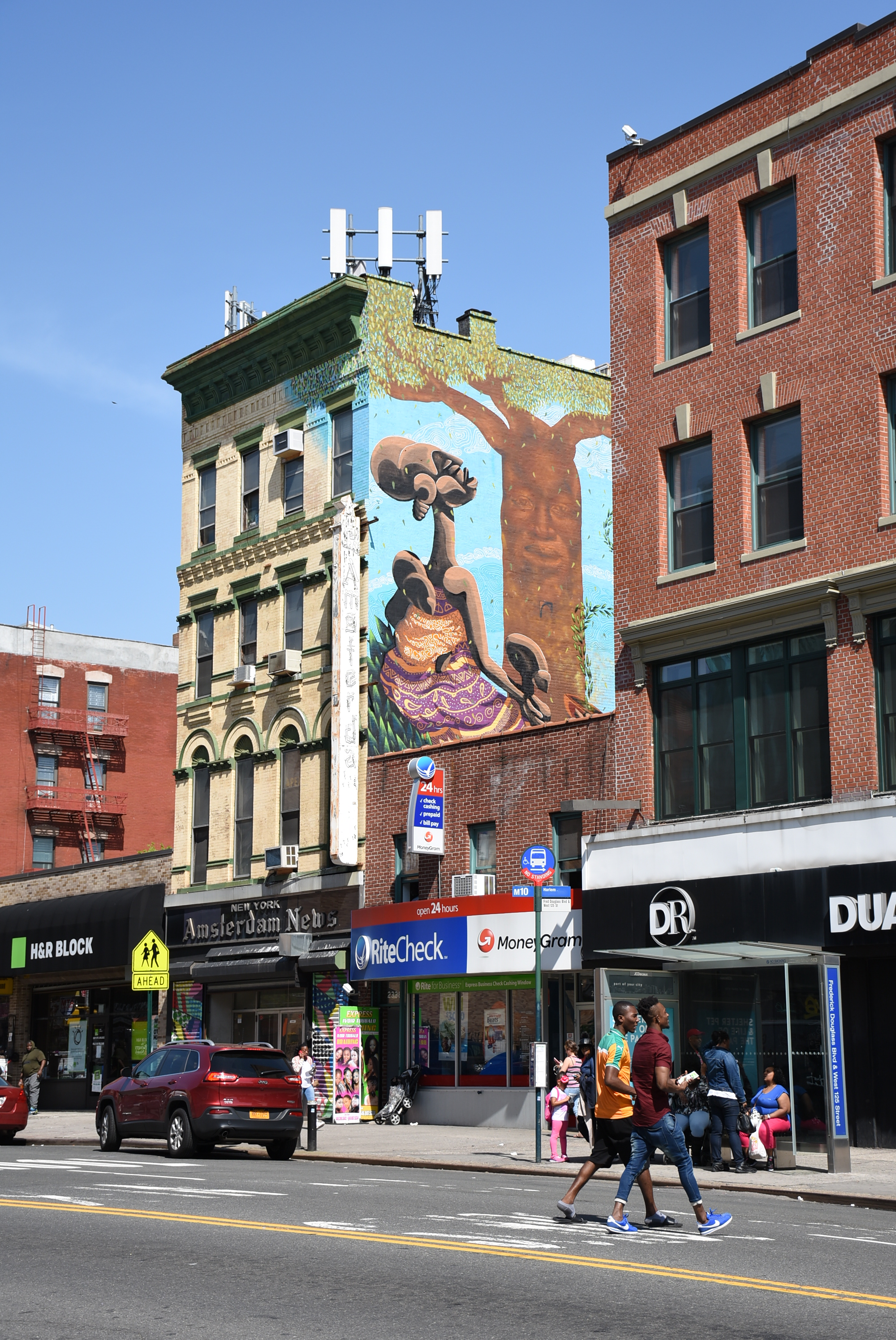 Headquarters of the New York Amsterdam News, a Harlem-based newspaper founded in 1909.